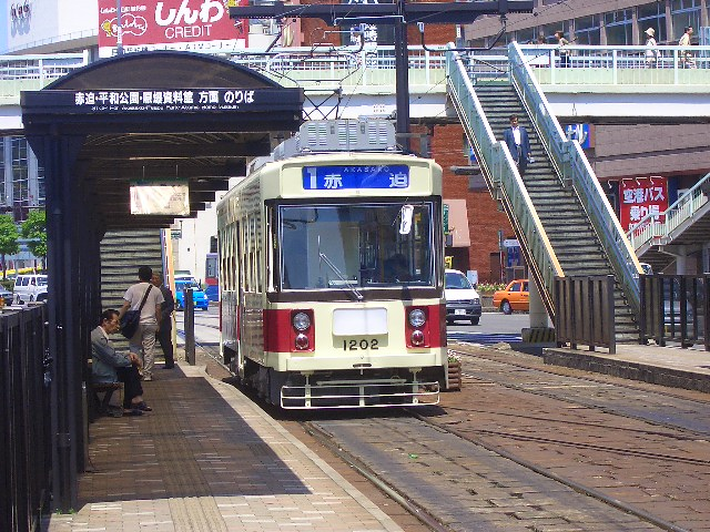 Nagasaki-ekimae Station